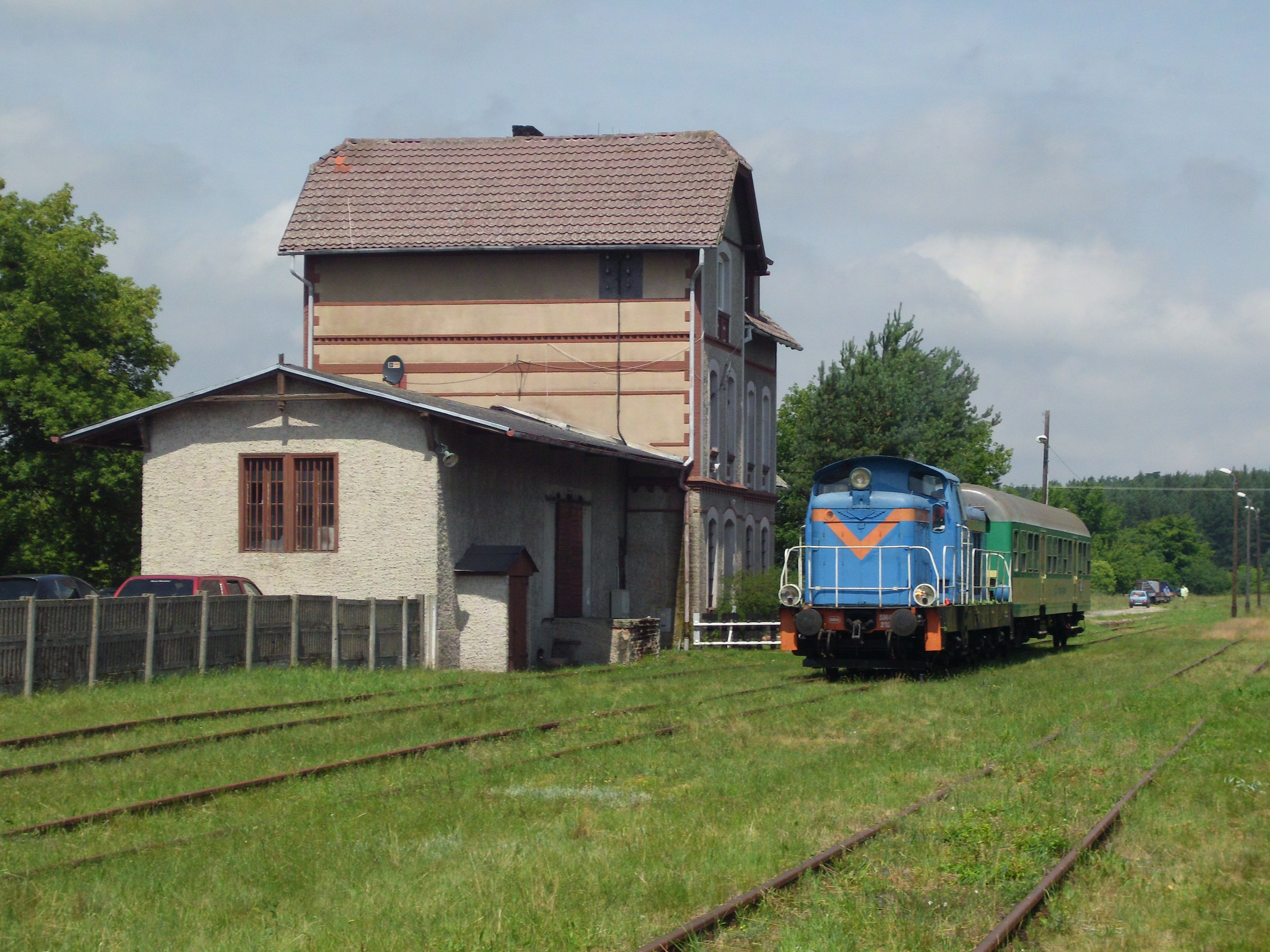 Tourist train headed by SM42-2029 at a station in Cybinka, Poland, the terminus of a route from Kunowice. This train was organized for railfans; only freight trains run here.